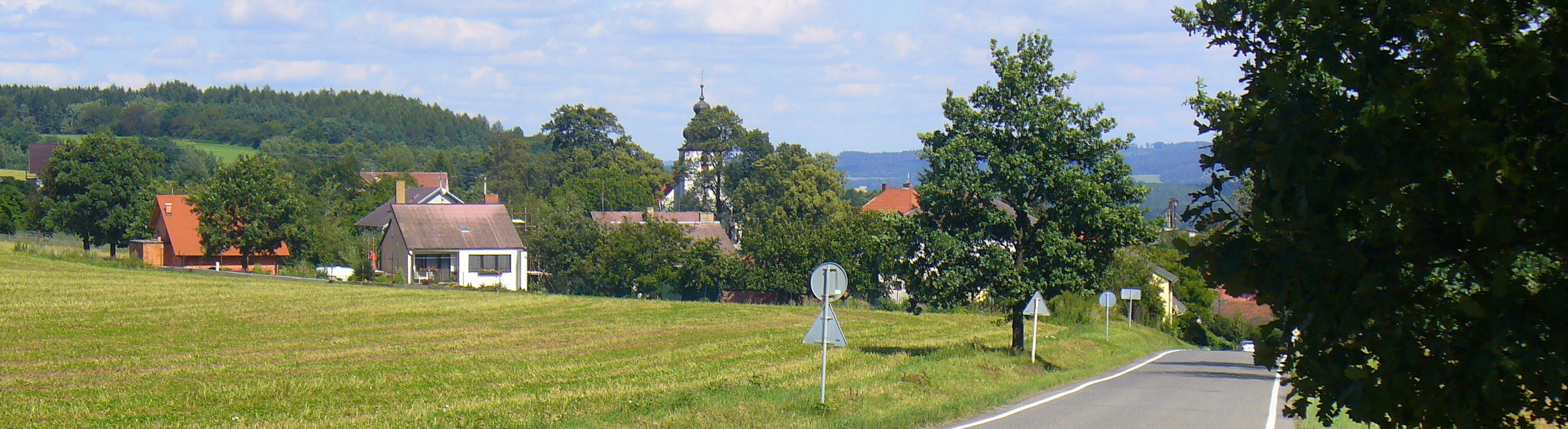 Lašovice village, Kovářov, Písek District; viev from quarry